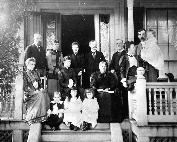 Marjorie Stoneman at three years old (back row on right) being held by her father.